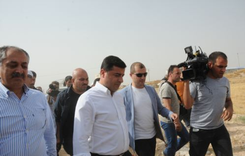 HDP supporters marching to Cizre, lead by party co-chair Selahattin Demirtaş, after their convoy was stopped by police